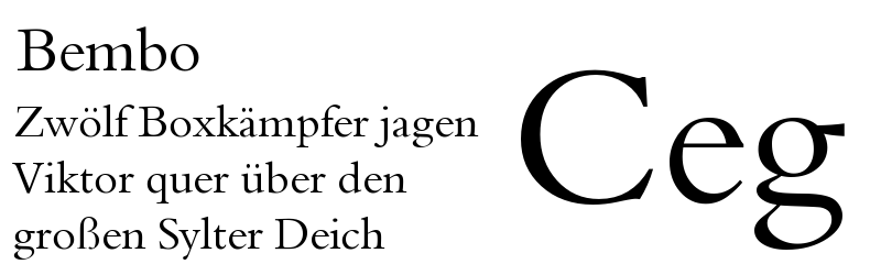 german pangram in typeface Bembo